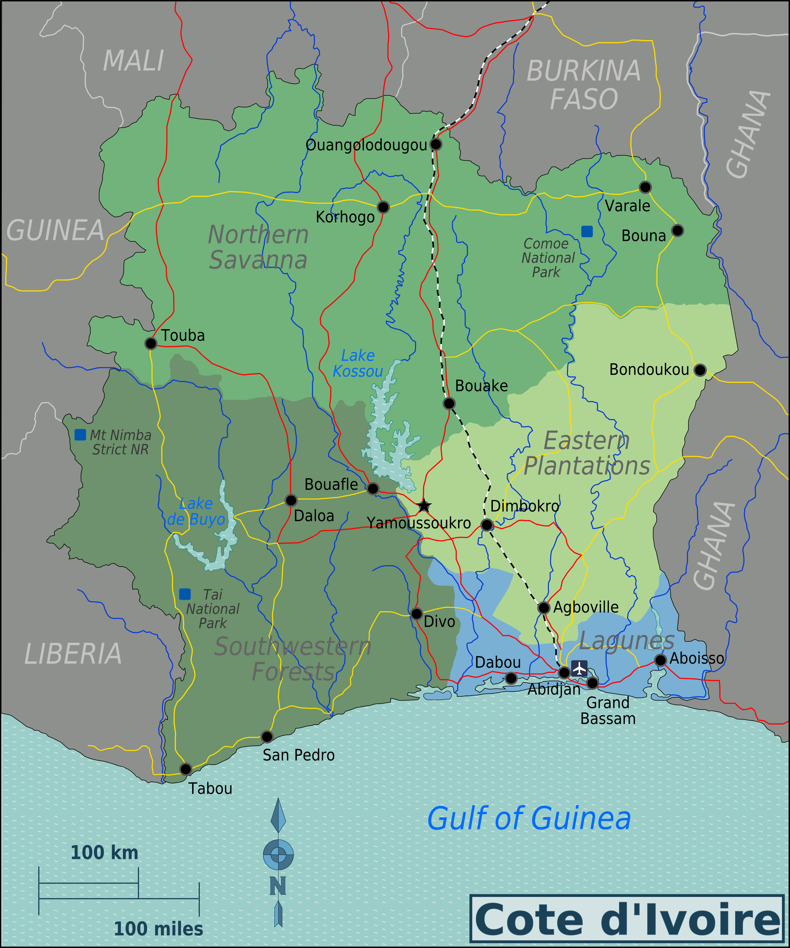 Map of Cote d'Ivoire for use on Wikivoyage, English version